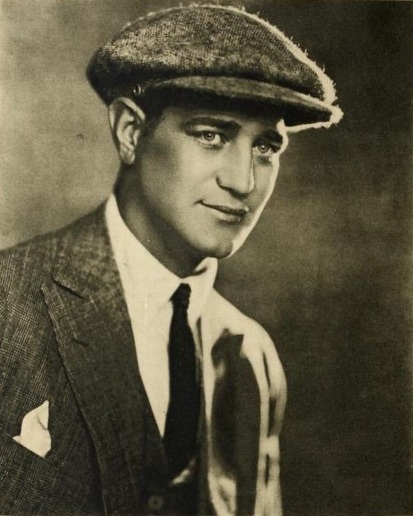 Art Acord, Stars of the Photoplay. 1924.